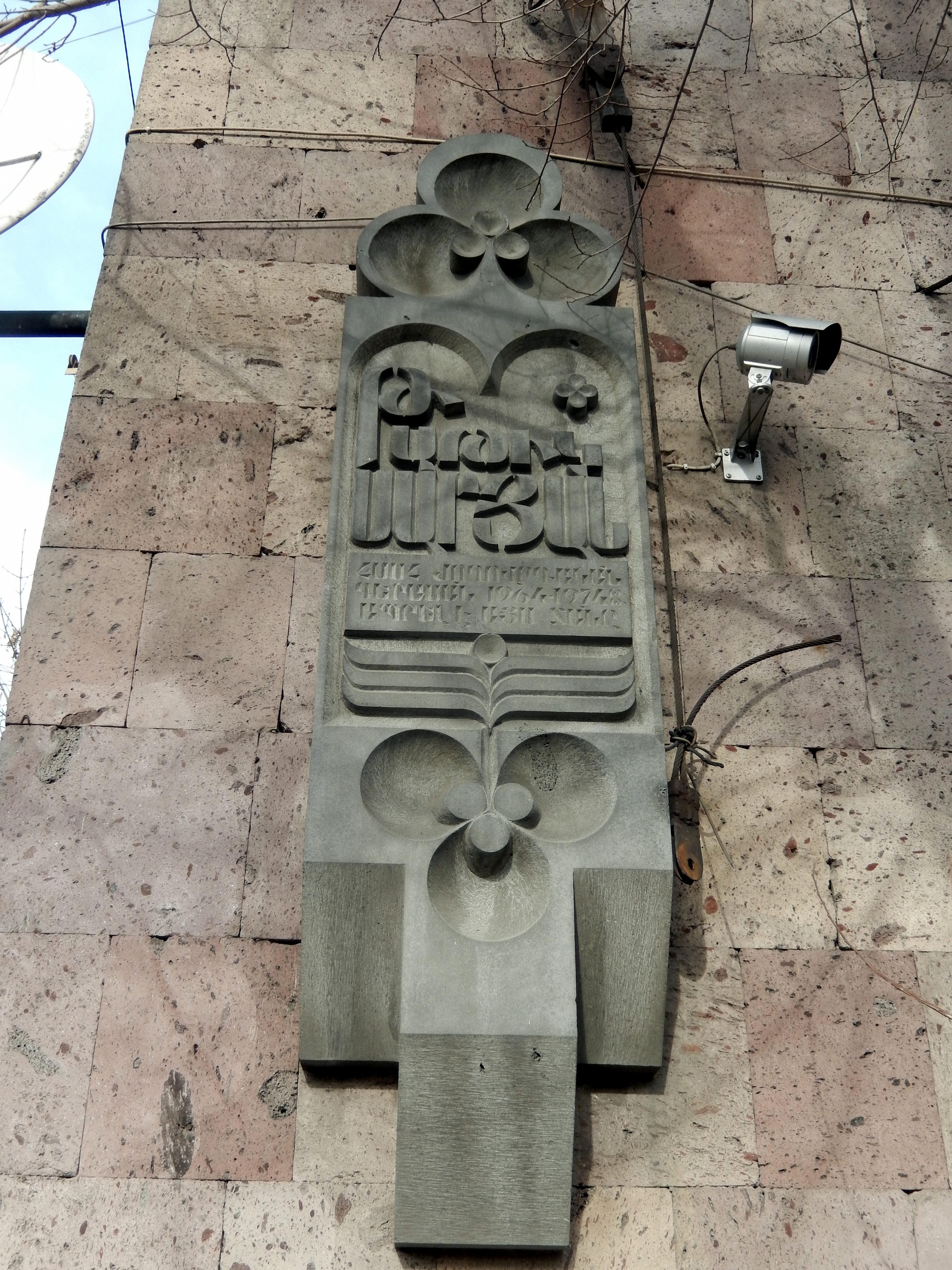 Tatik Saryan's Plaque in Yerevan